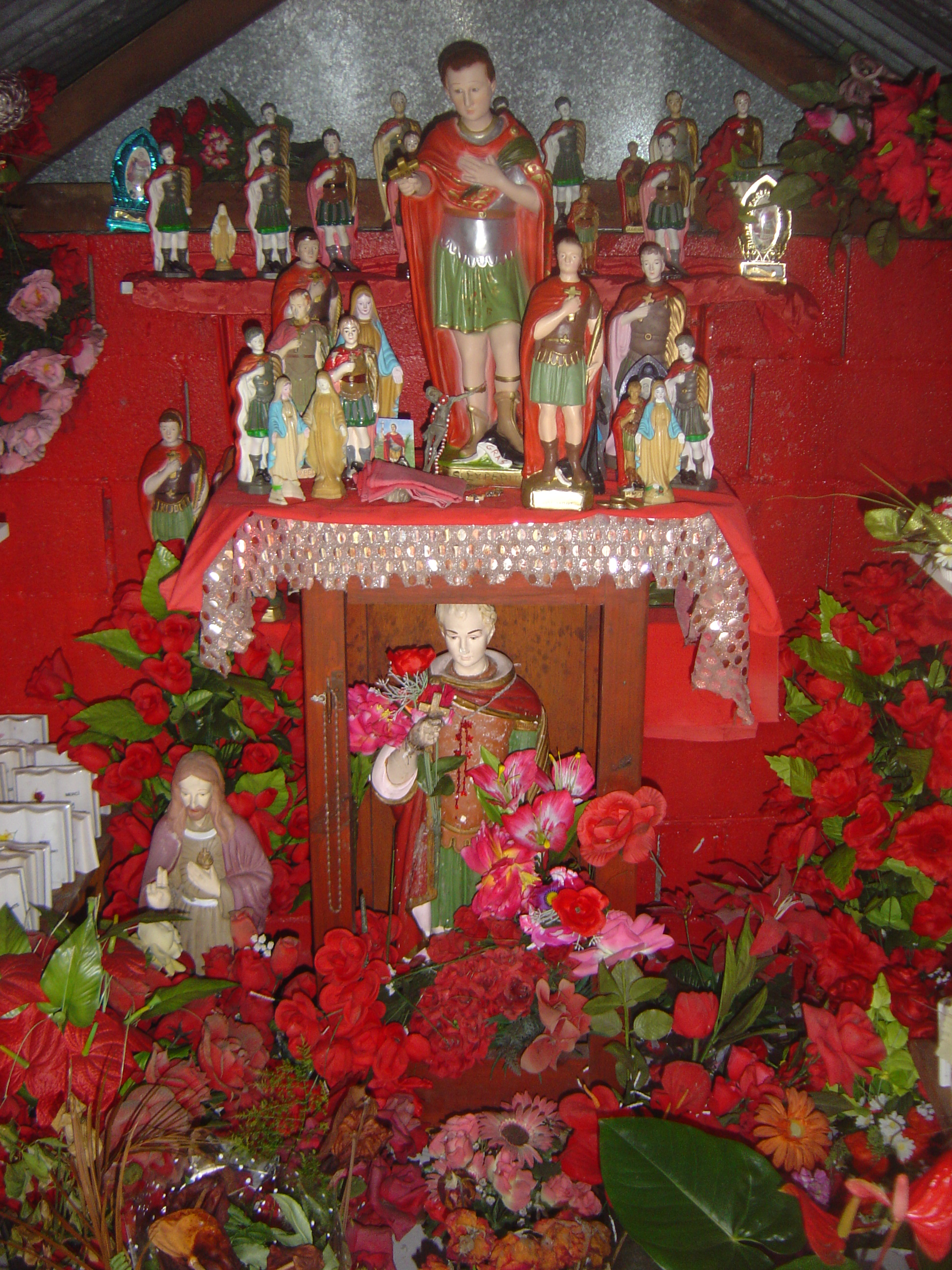 Statues of Saint Expédit inside an altar